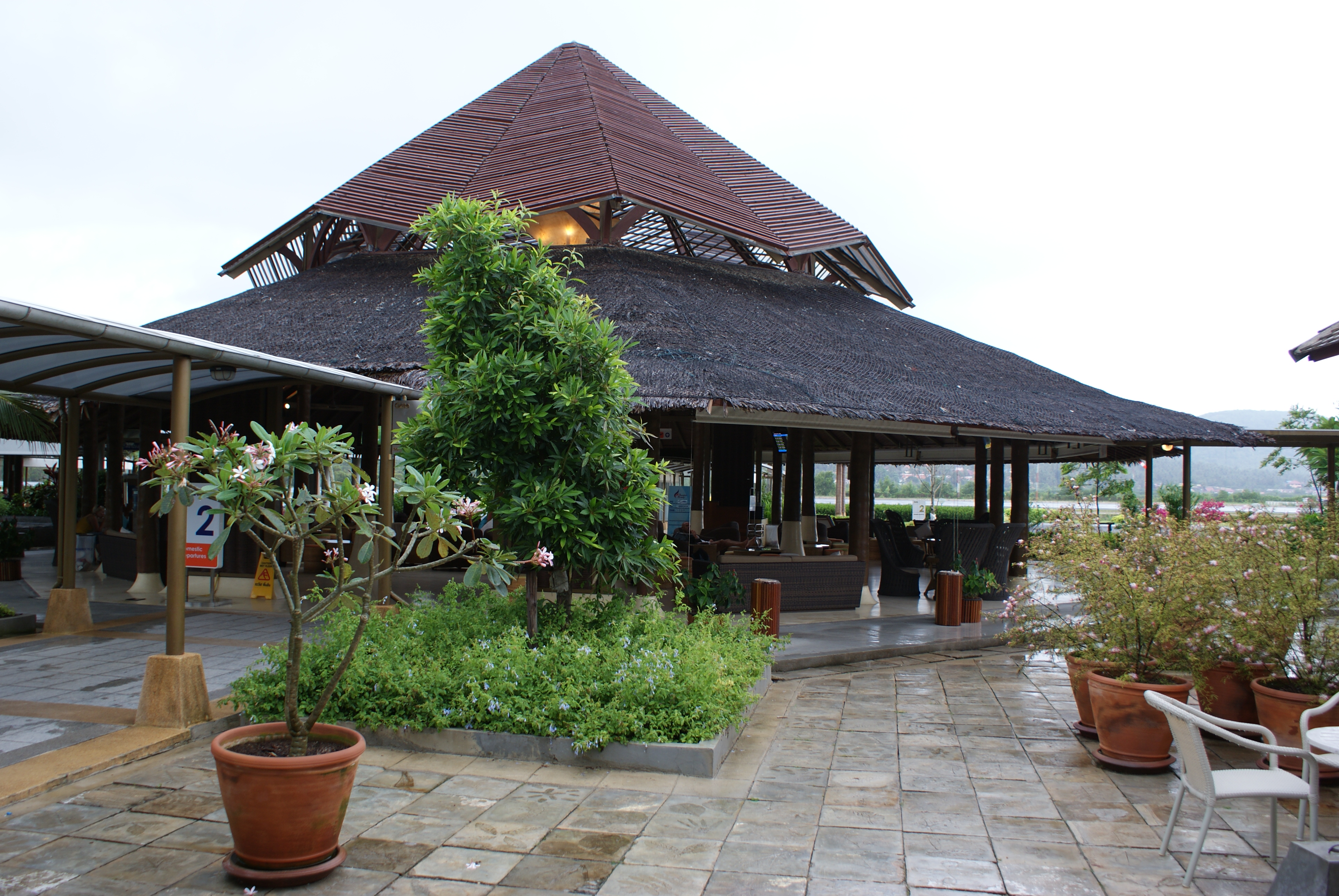 Samui airport departure gate.